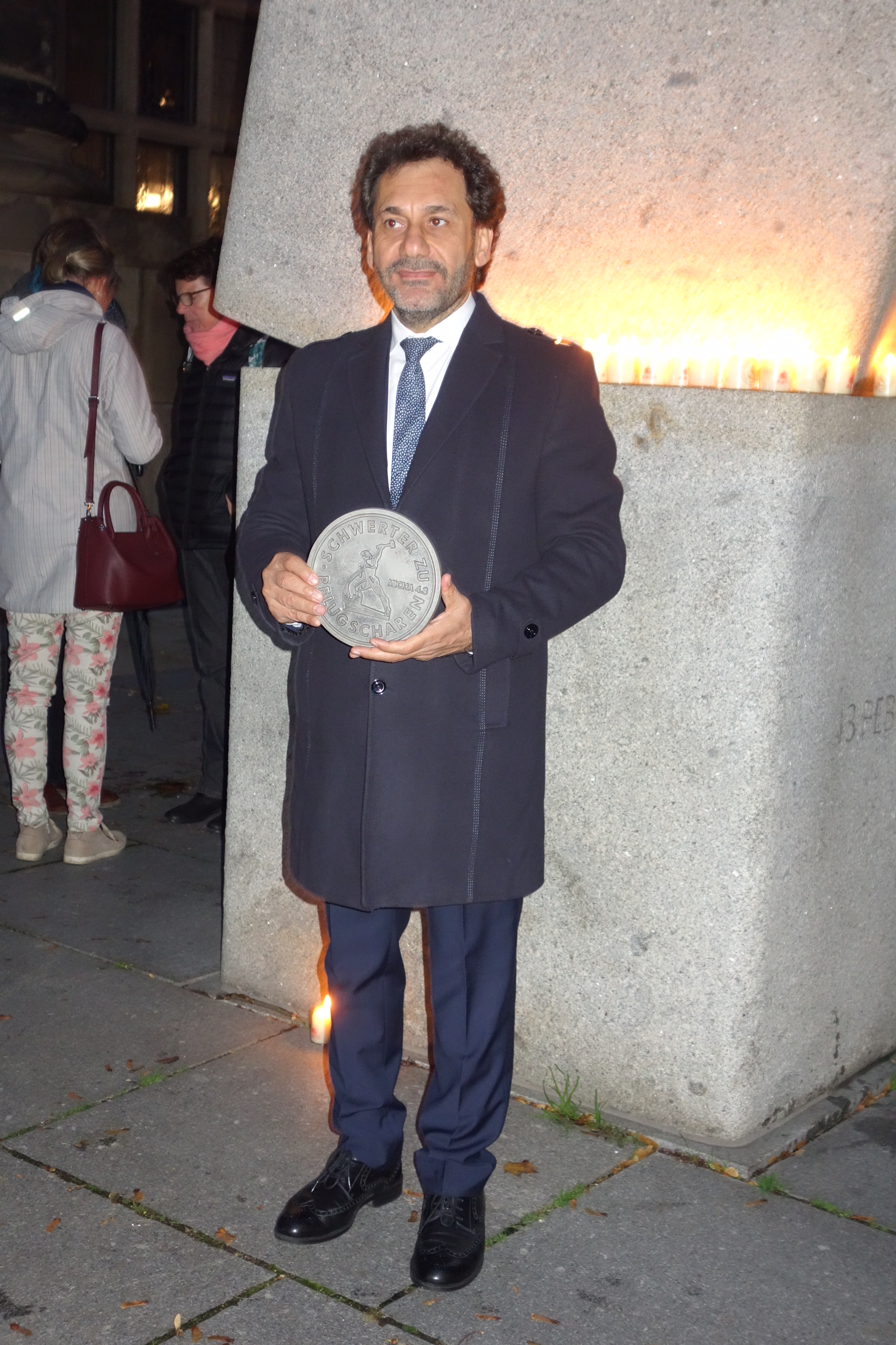 Haroutioun Selimian receives “Swords into Plowshare” award